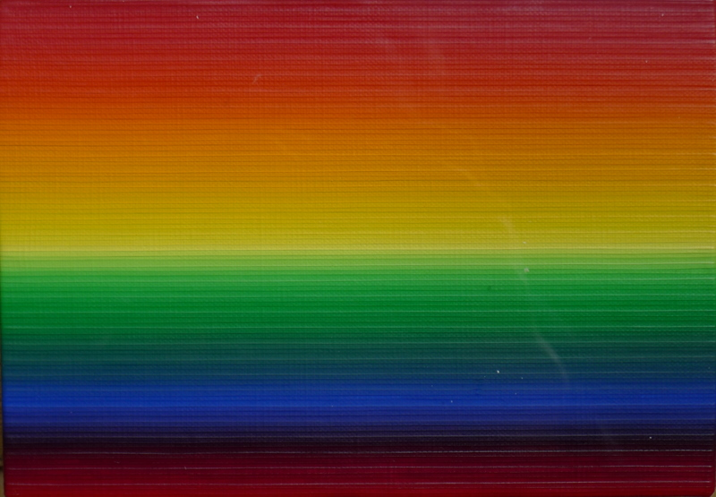 96 gradation rainbow